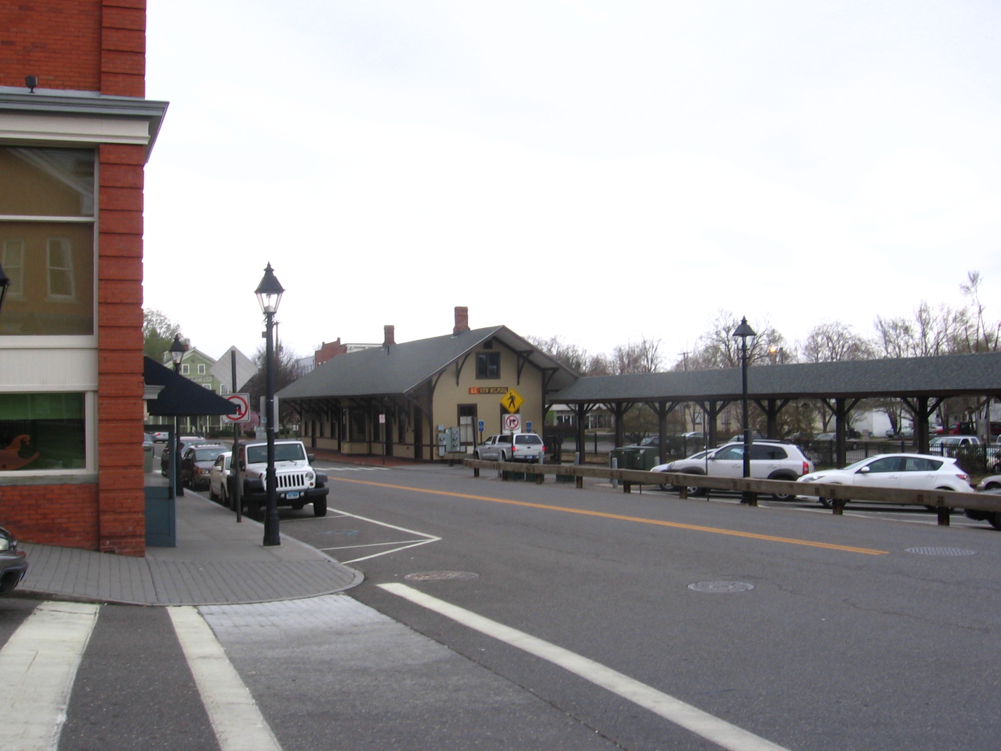 NRHP Reference # 84001062. Houses the New Milford chamber of commerce.